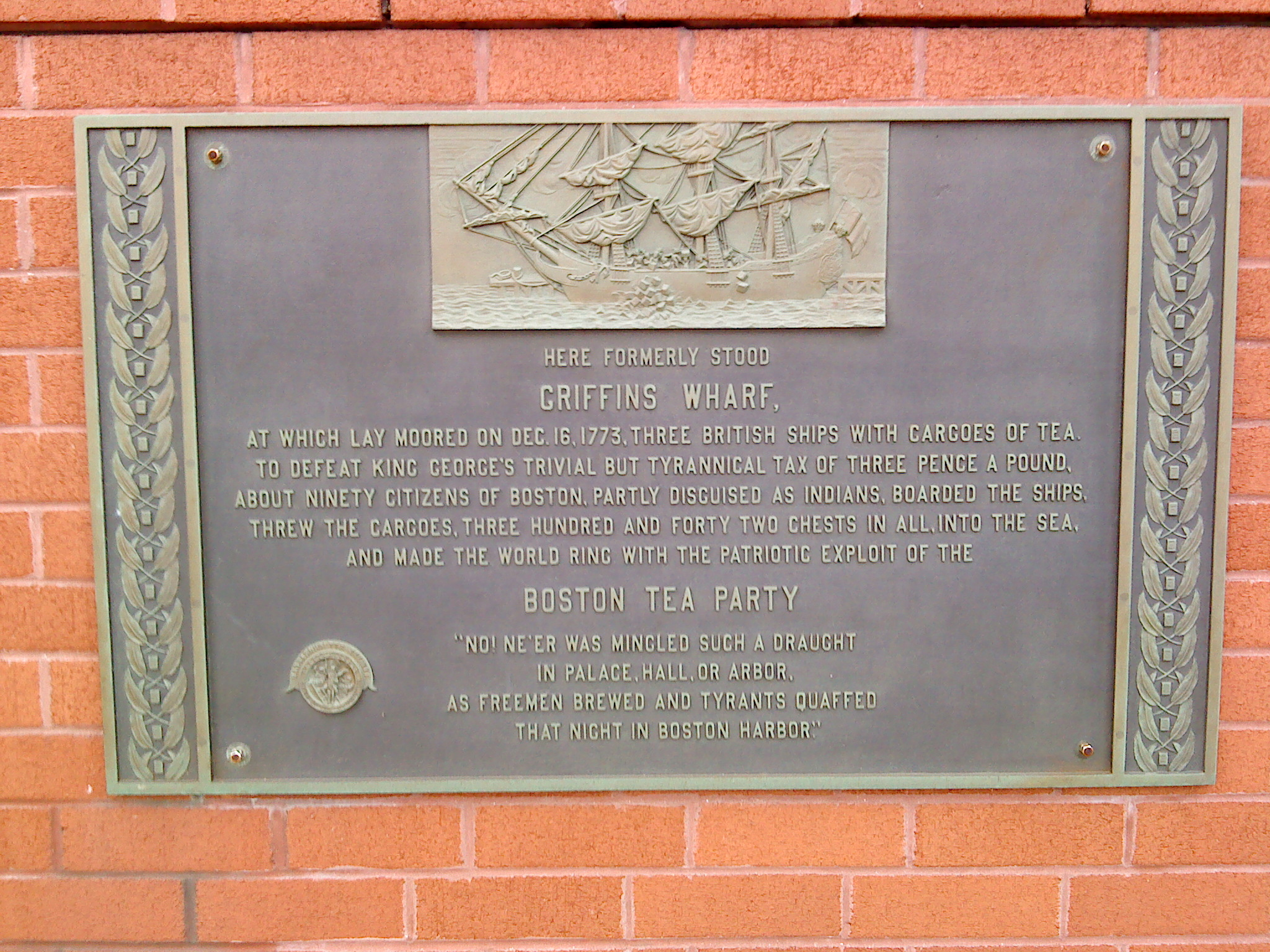 A commemorative plaque at the site of the Boston Tea Party uprising. Located near the Fort Point Channel at the corner of Atlantic Avenue and Seaport Boulevard.